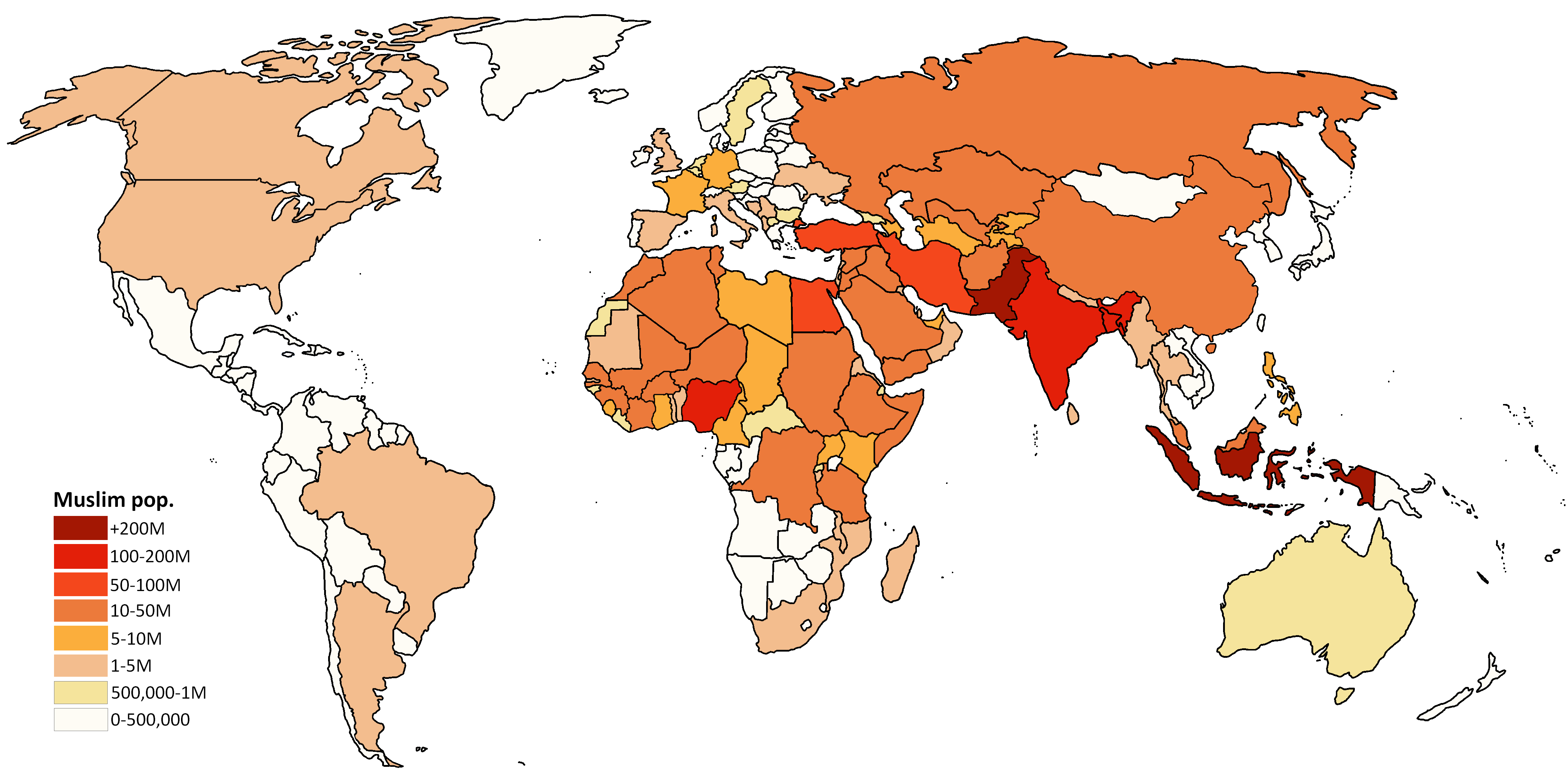 Muslim population map of the world, for demographic data see Islam by country